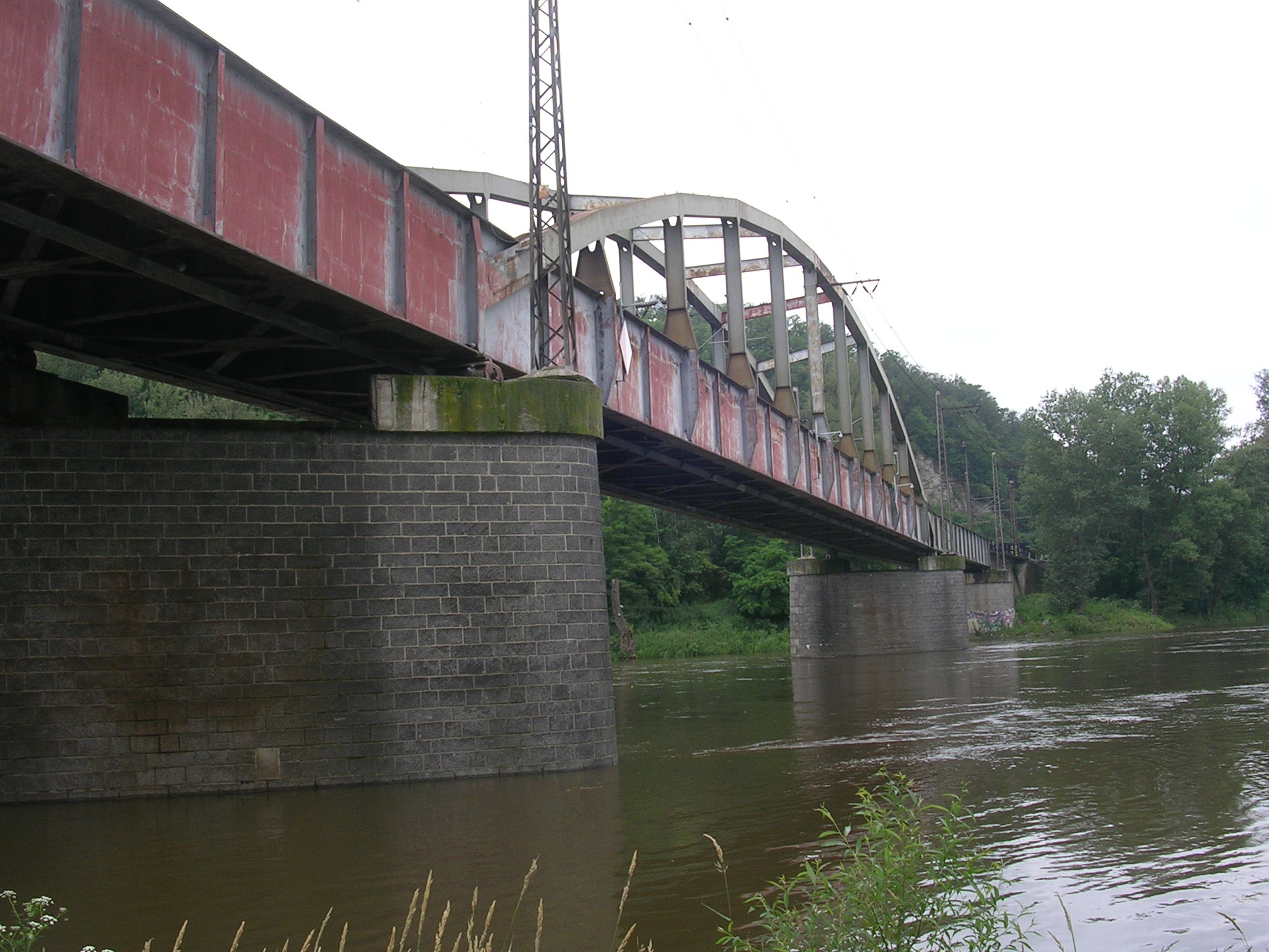 Chvatěruby, Mělník District, Central Bohemian Region, the Czech Republic. A railway bridge. - Google Maps - Google Earth